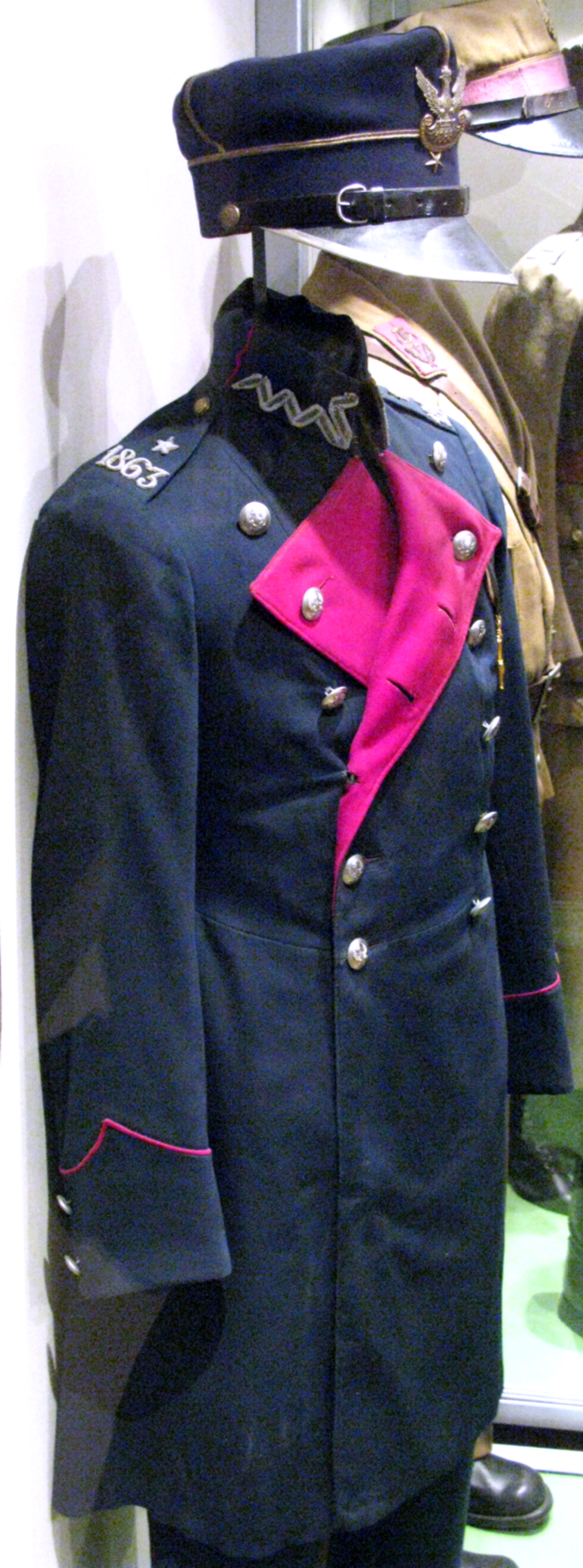 Uniform of January Uprising Veteran (before 1939).